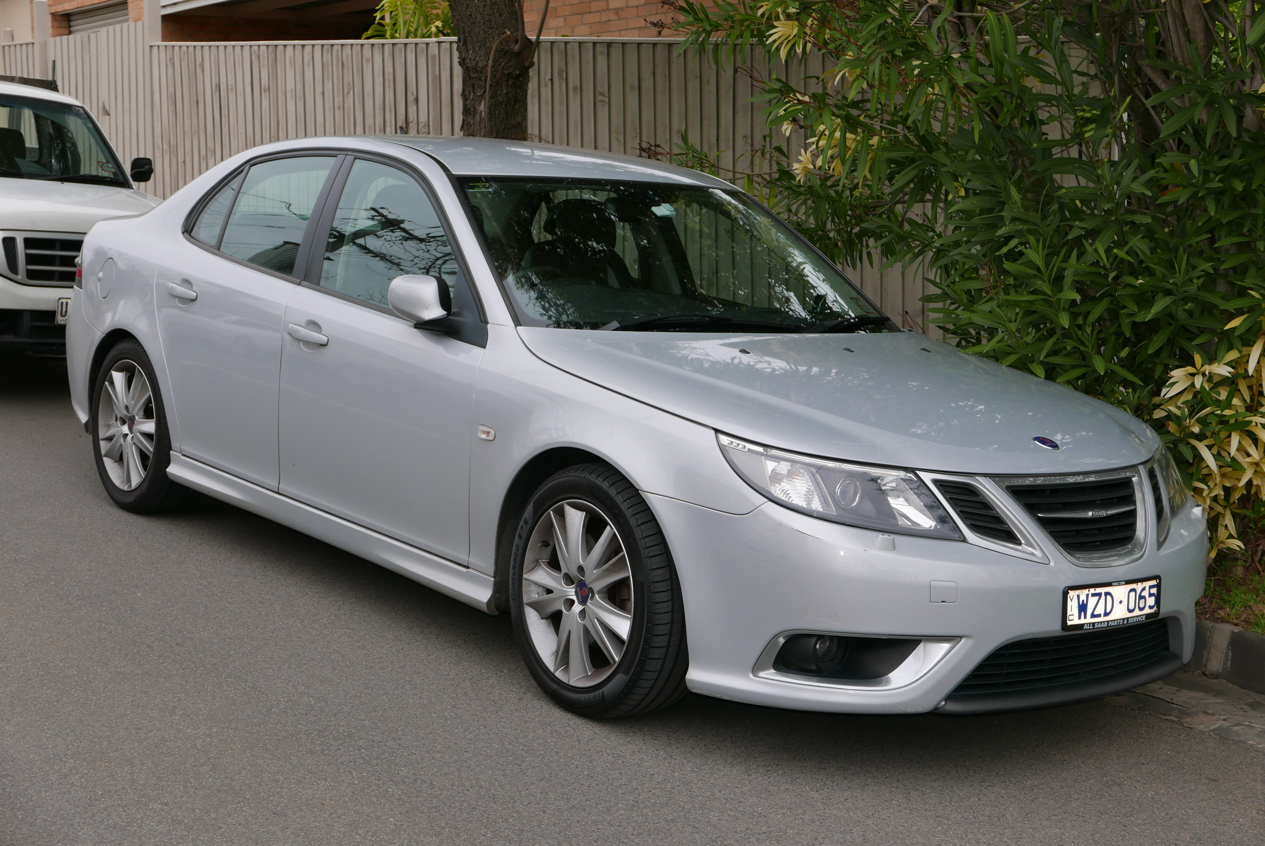 2009 Saab 9-3 (MY08) Aero 2.8T sedan. Photographed in Kew, Victoria, Australia. Vehicle registration enquiry results Jurisdiction Victoria Registration WZD065 Chassis code YS3FH41U181102840 Engine code B284LAA008032231 Compliance date 2009-06 Year of manufacture 2009